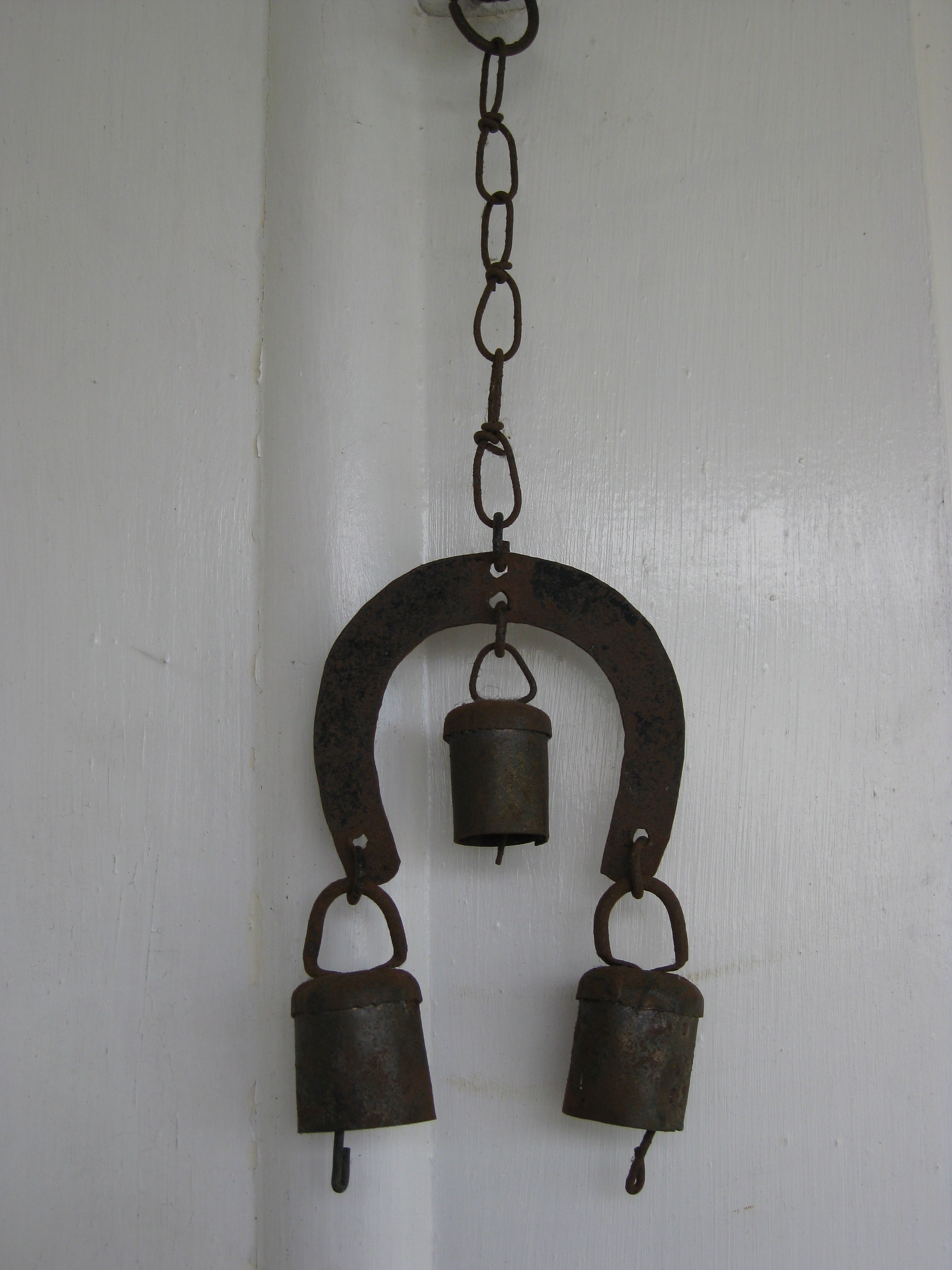 An old iron wind chime in the shape of a horseshoe with 3 bells. Used as a good luck charm.